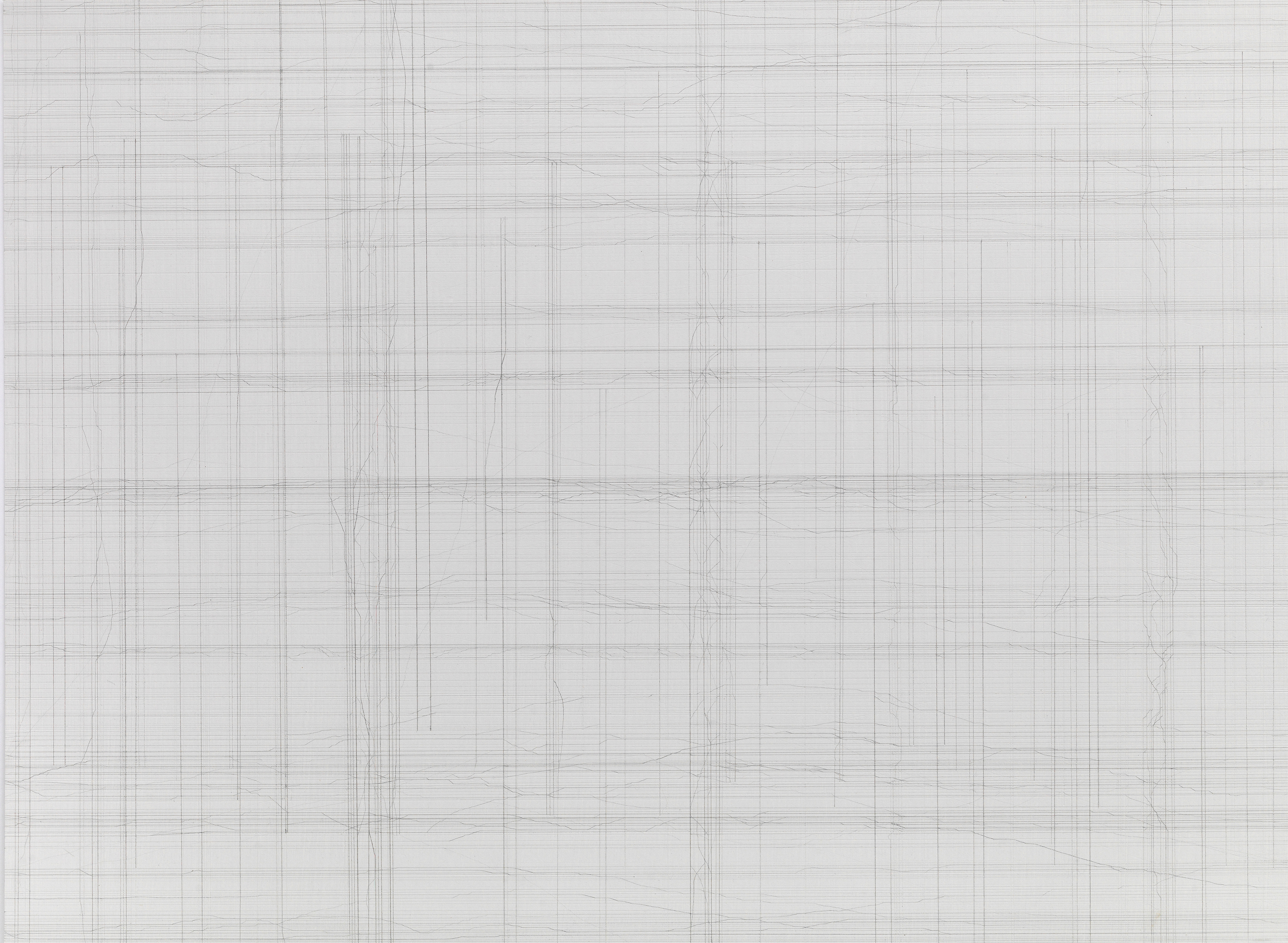 Lucie Beppler, 2010-2012, Pencil, Etching Needle, Silver Pen on Grounded Paper, 45 x 60,5 cm